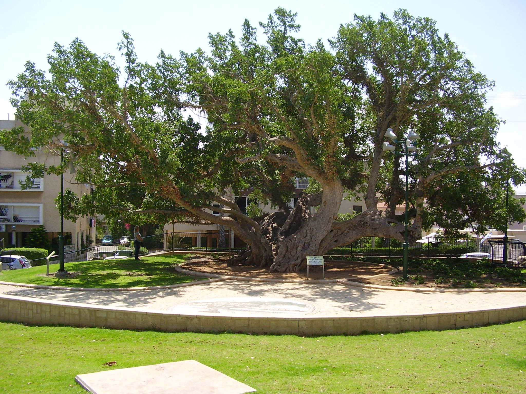 the old sycamore tree in Netanya, Israel